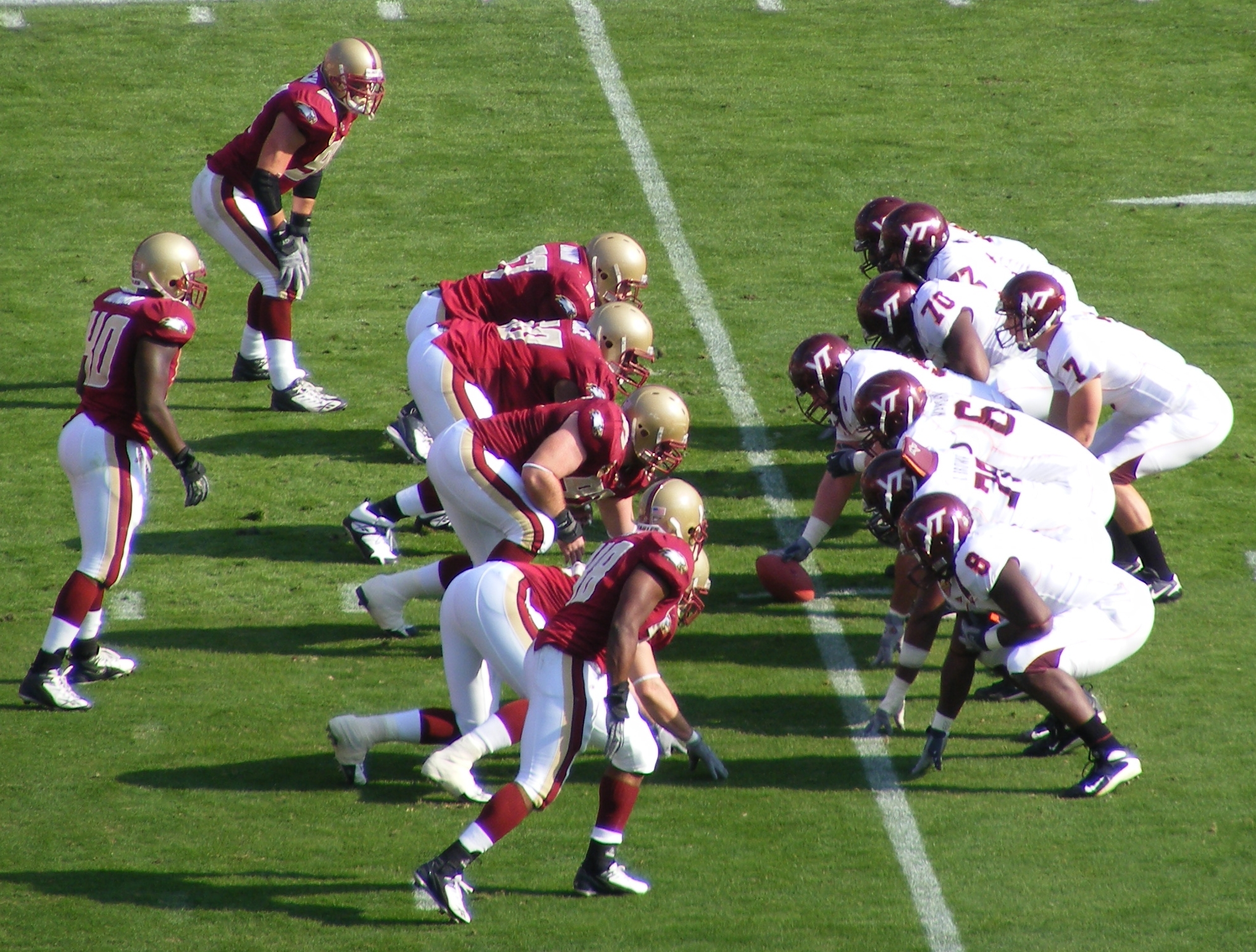 Sean Glennon (en) under center as the Virginia Tech Hokies take on the Boston College Eagles in the 2007 ACC championship game